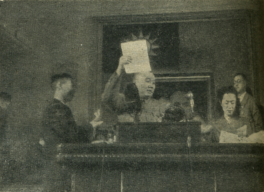 1946 copyright expired